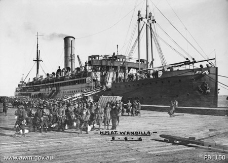 AWM Image Summary: Wandilla A62 On wharf A62 in background, four heavy planks of timber right foreground, Melbourne Port, Melbourne